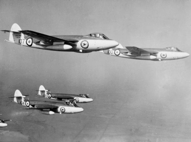 Five Royal Navy Hawker Sea Hawk F.1 fighters from 898 Naval Air Squadron in flight.